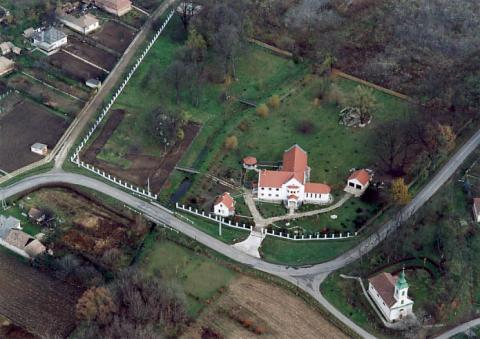 Erdőkürt, Hungary, aerialphotography